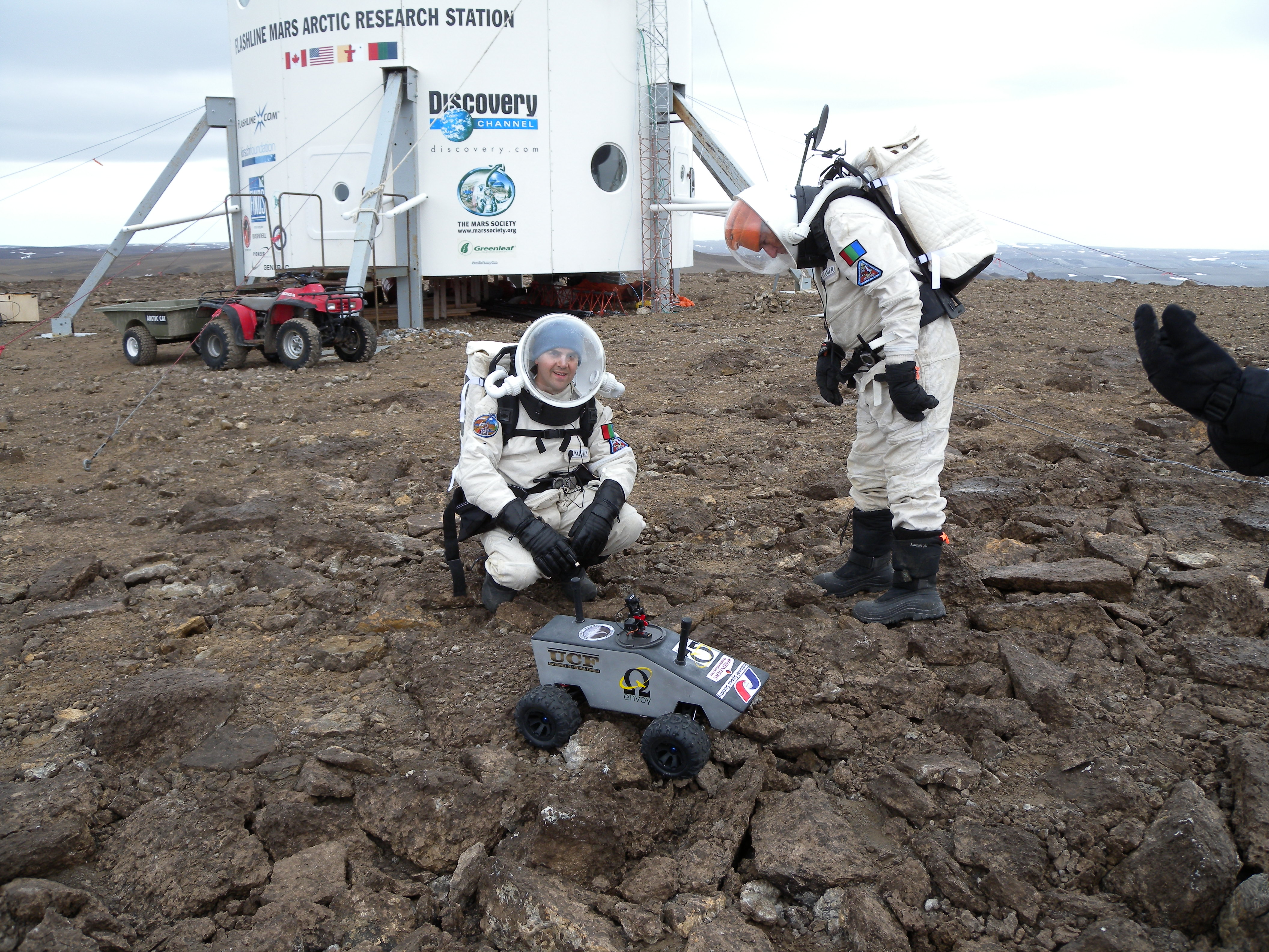 Photograph taken at the Flashline Mars Arctic Research Station (FMARS) on Devon Island, Canadian Arctic. Featured are Joseph Palaia and Vernon Kramer with the FMARS habitat in the background and rover in the foreground.